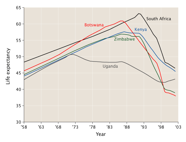 Aids in Africa - Life expectancy in some AIDS-ravaged Southern African countries.